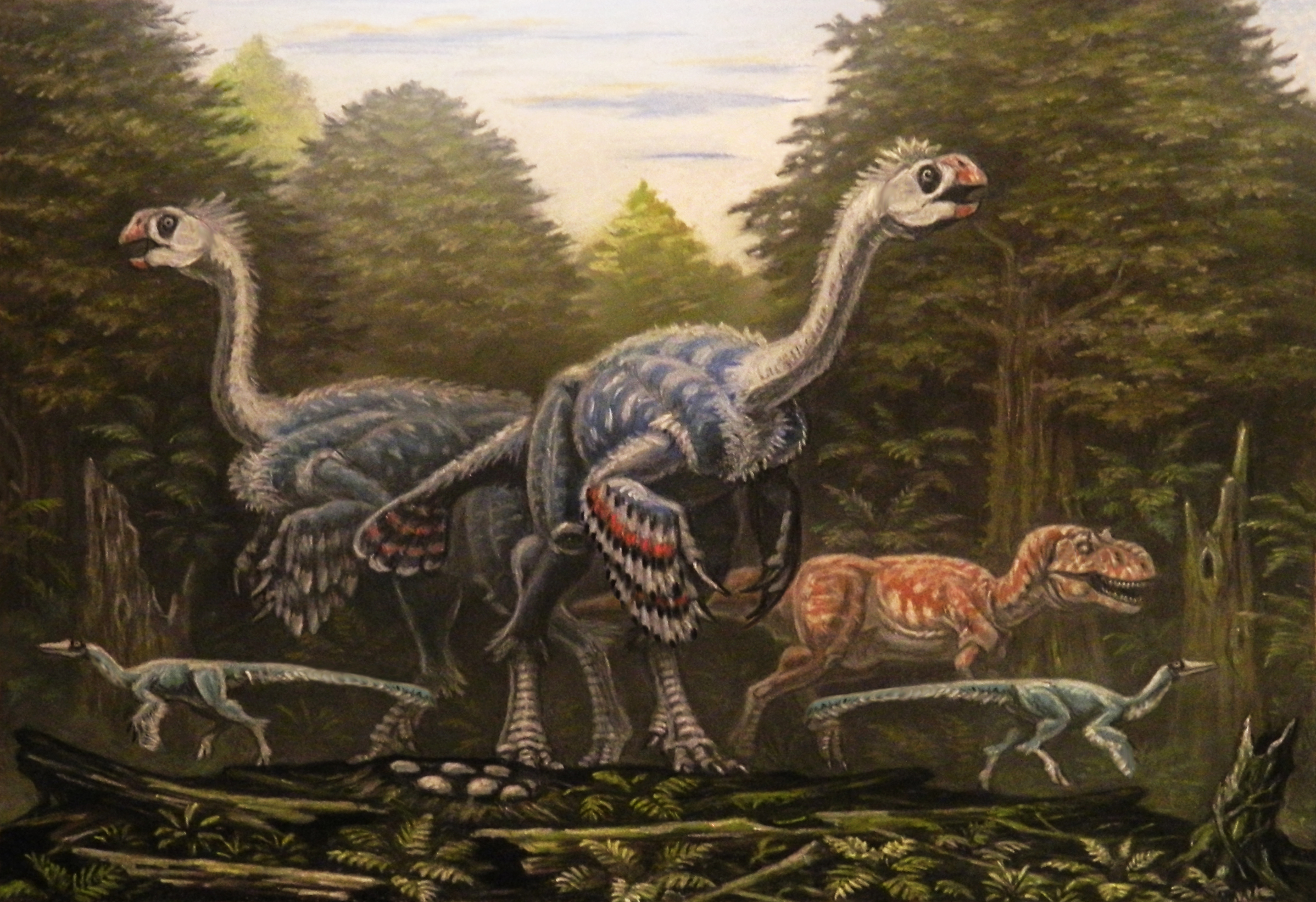 Gigantoraptor (centre), Archaeornithomimus (far left & far right) and Alectrosaurus (background)